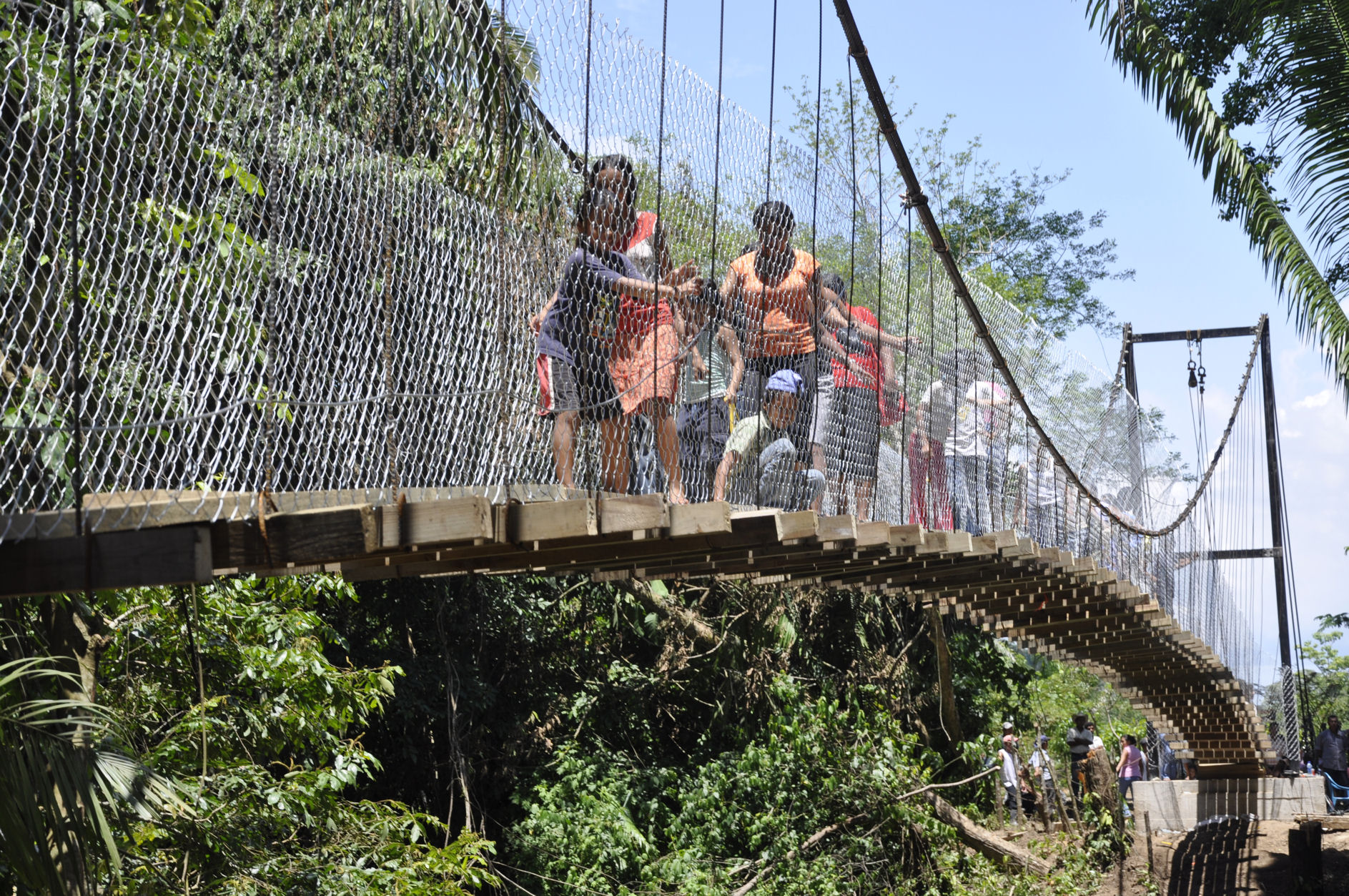 Villagers cross suspension footbridge — in Guatemala.